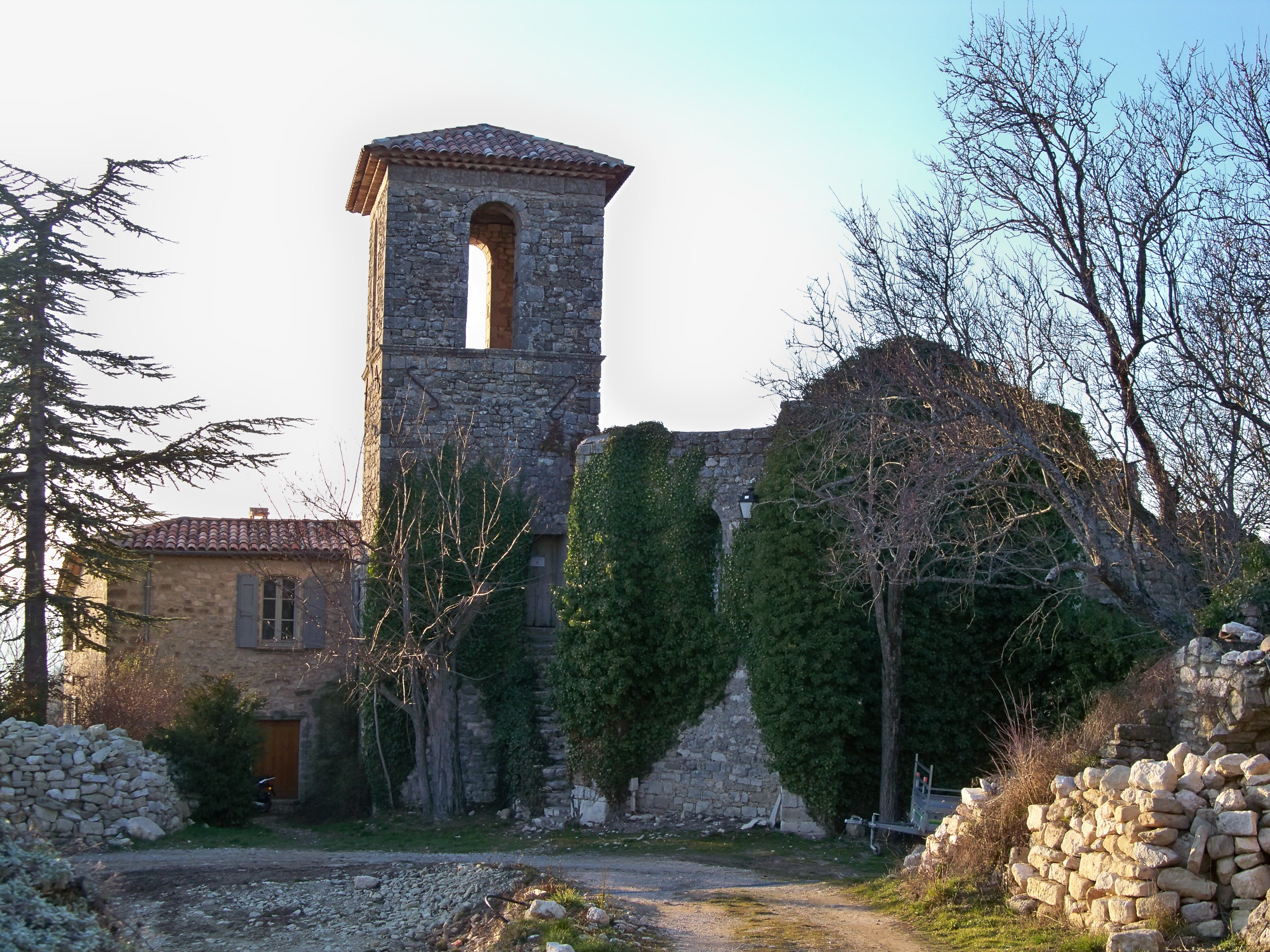 church in Montjustin (04), France